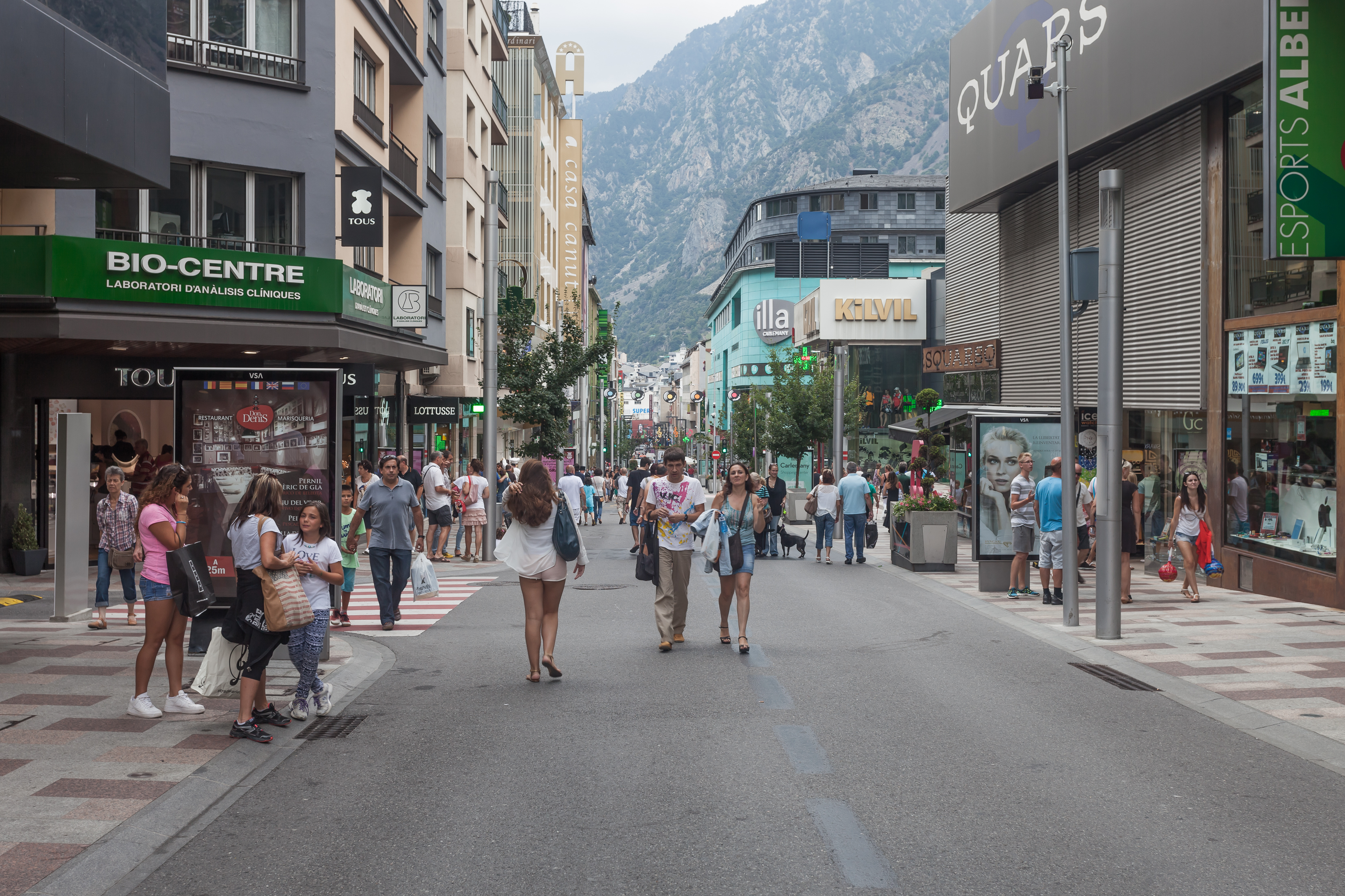 Pedestrian street in Escaldes-Engordany. Andorra